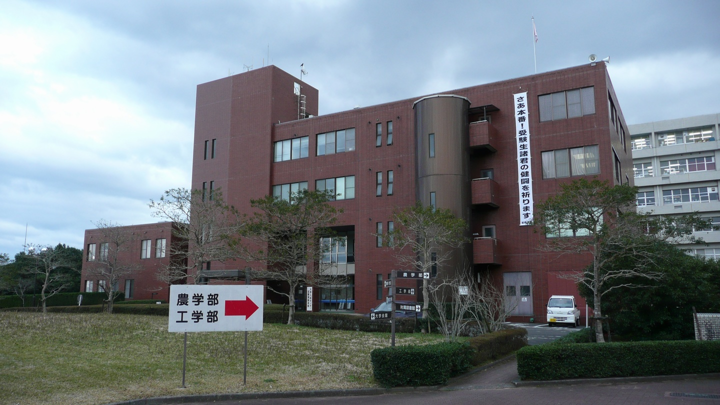 University of Miyazaki